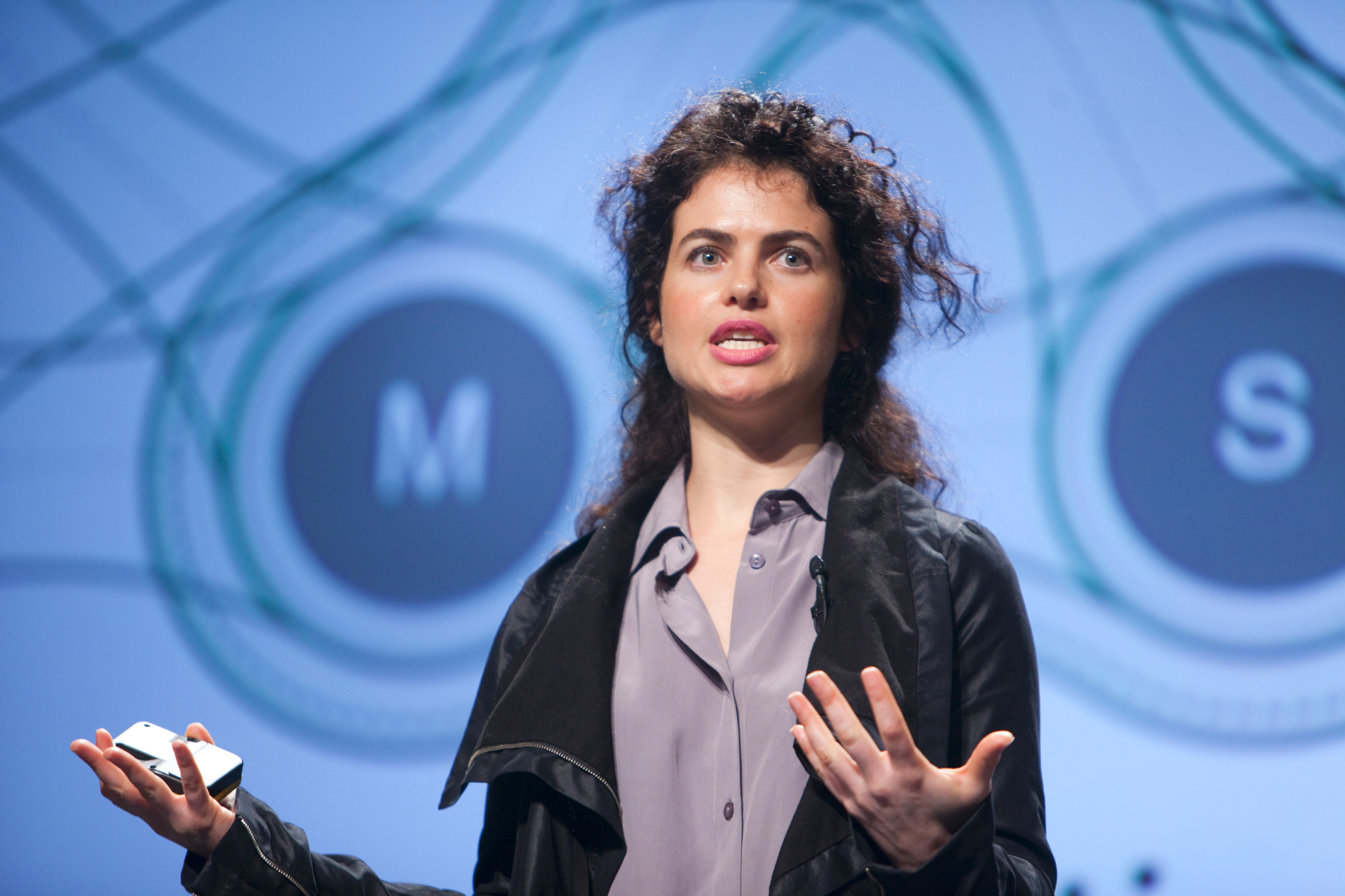 Neri Oxman at the Pop!Tech 2009 Conference in Camden, ME photo by Kris Krüg